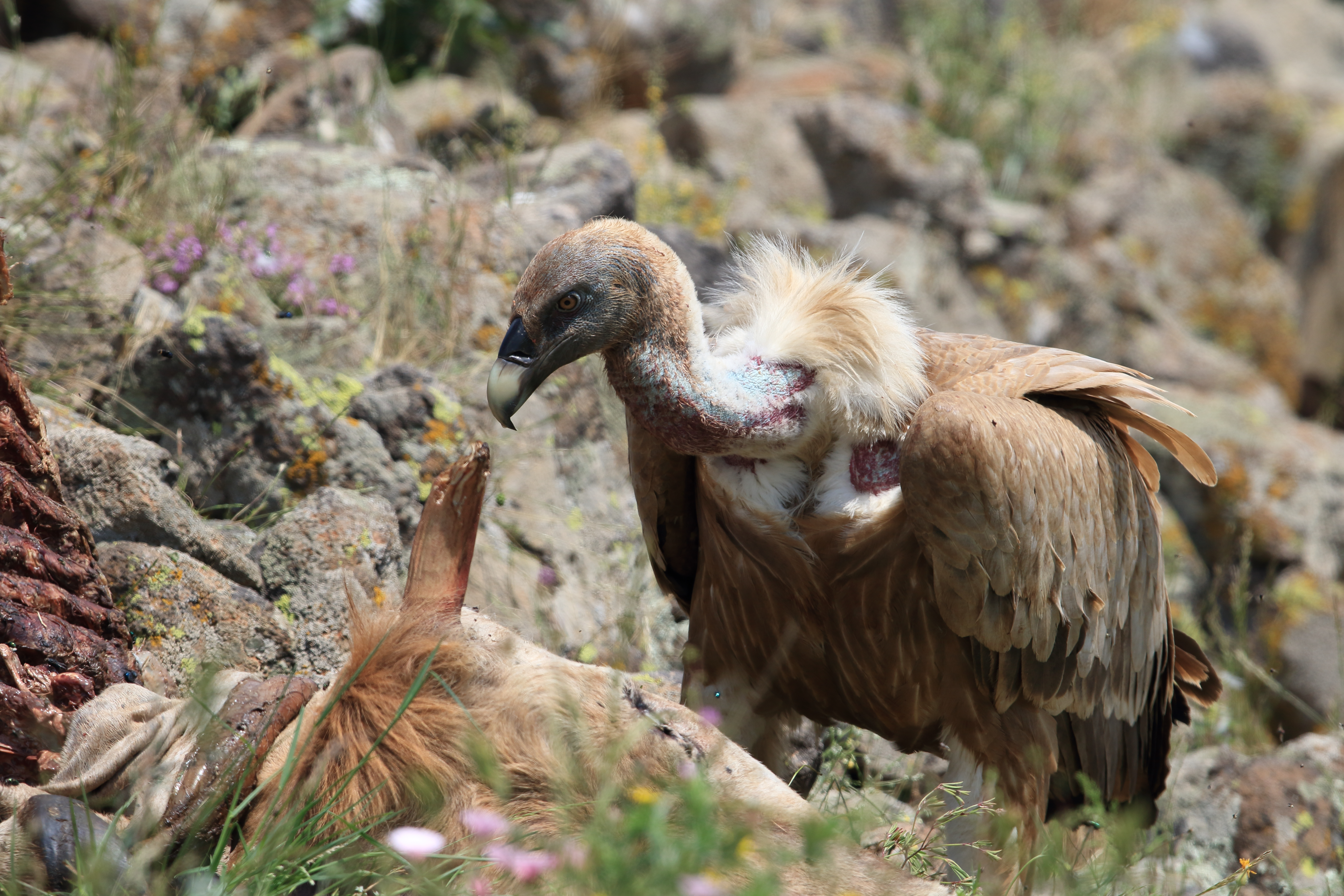 Griffon vulture (Gyps fulvus) in Vulchi Dol Reserve in the area of the town of Madzharovo, Bulgaria